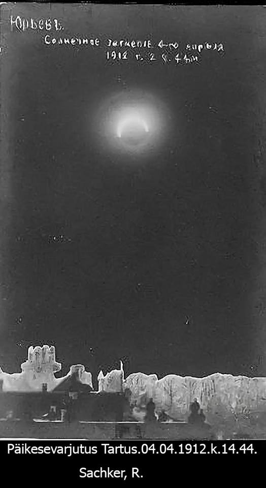 Solar Eclipse in Tartu on April 4th, 1912. Photo by the first photographer amongst Estonian people, Reinhold Sachker (1844-1919). The date is given by the old calendar.